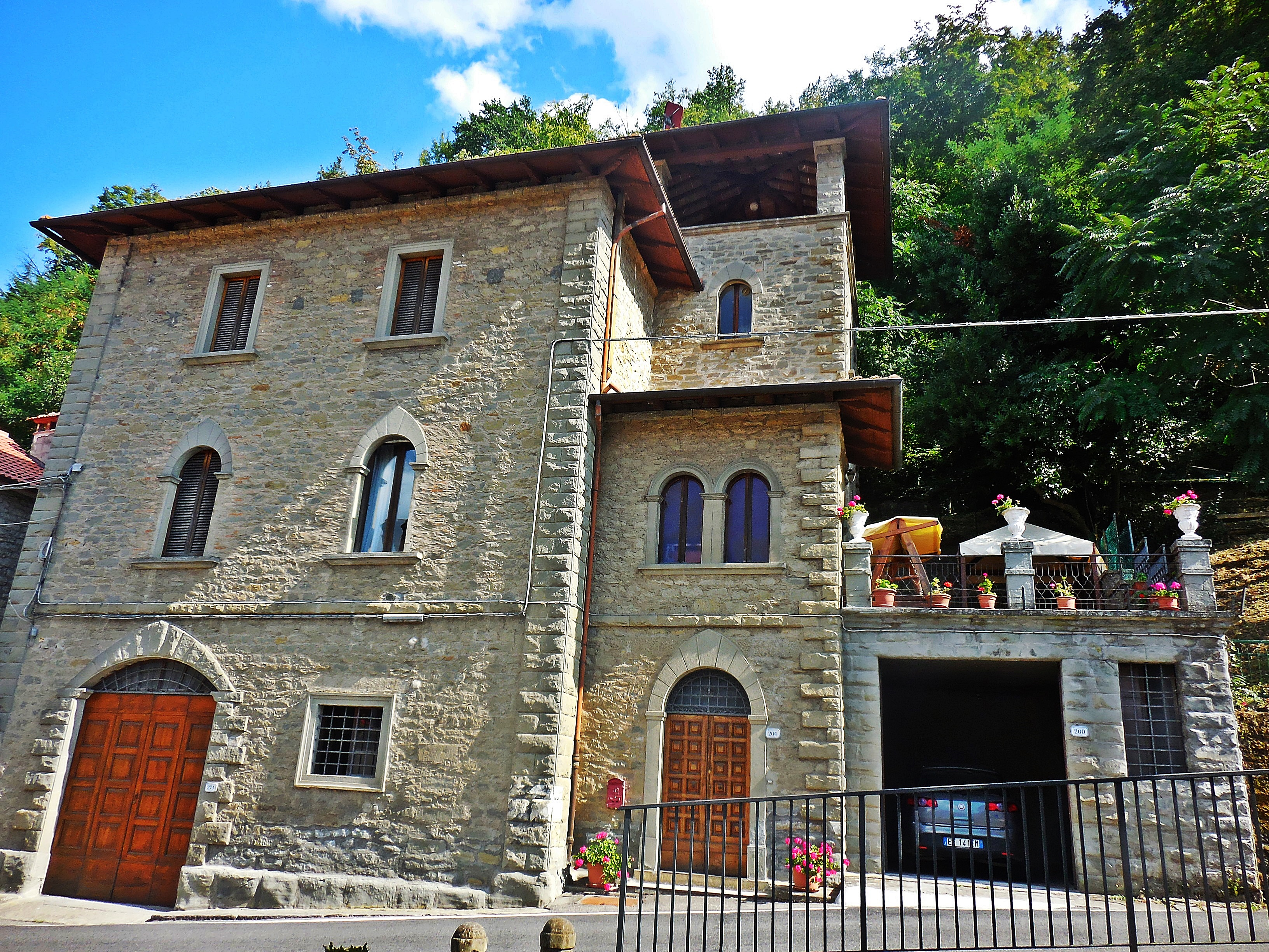 the village